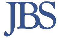 Logo of the John Birch Society